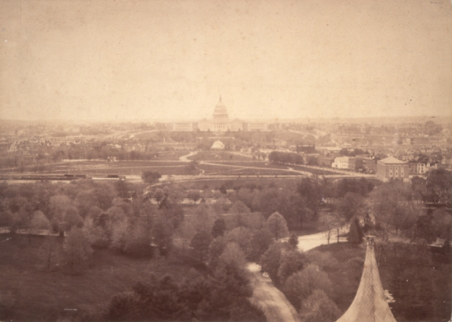 Title: Panoramic view of Washington, D.C. Creator(s): Hacker, Francis, photographer Date Created/Published: 1879? Medium: 5 photographic prints (1 panorama) : albumen ; 16 x 22 in. Summary: Five-part panorama shows the mall area of Washington, D.C., and surrounding buildings, from the Smithsonian Institution Building (now the "Castle"). Left section shows Washington Monument under construction in background, with Agriculture Department at left. The left center and center sections show the B Street (now Constitution Avenue) side of the Mall with building trade structures and Center Market. The right center section shows Baltimore and Potomac railroad station and tracks. The right section includes the U.S. Capitol in background and Independence Avenue area of Capitol Hill. Reproduction Number: LC-USZC4-12138 (color film copy transparency of right section) LC-USZ62-90246 (b&w film copy neg. of left section) LC-USZ62-90247 (b&w film copy neg. of left center section) LC-USZ62-90248 (b&w film copy neg. of center section) LC-USZ62-90249 (b&w film copy neg. of right center section) LC-USZ62-90250 (b&w film copy neg. of right section) Rights Advisory: No known restrictions on publication. No known restrictions on publication. Call Number: LOT 12361, no. 1 [item] (H size) [P&P] Repository: Library of Congress Prints and Photographs Division Washington, D.C. 20540 USA Notes: All prints are albumen except for the center section, which is silver printing-out paper. Attributed to Francis Hacker. Five separate prints provide a panoramic view when placed side-by-side. Photos are numbered to indicate arrangement sequence. Transfer; LC Geography & Map Division (original source unknown). Published in: Washingtoniana Photographs ... Library of Congress, 1989.